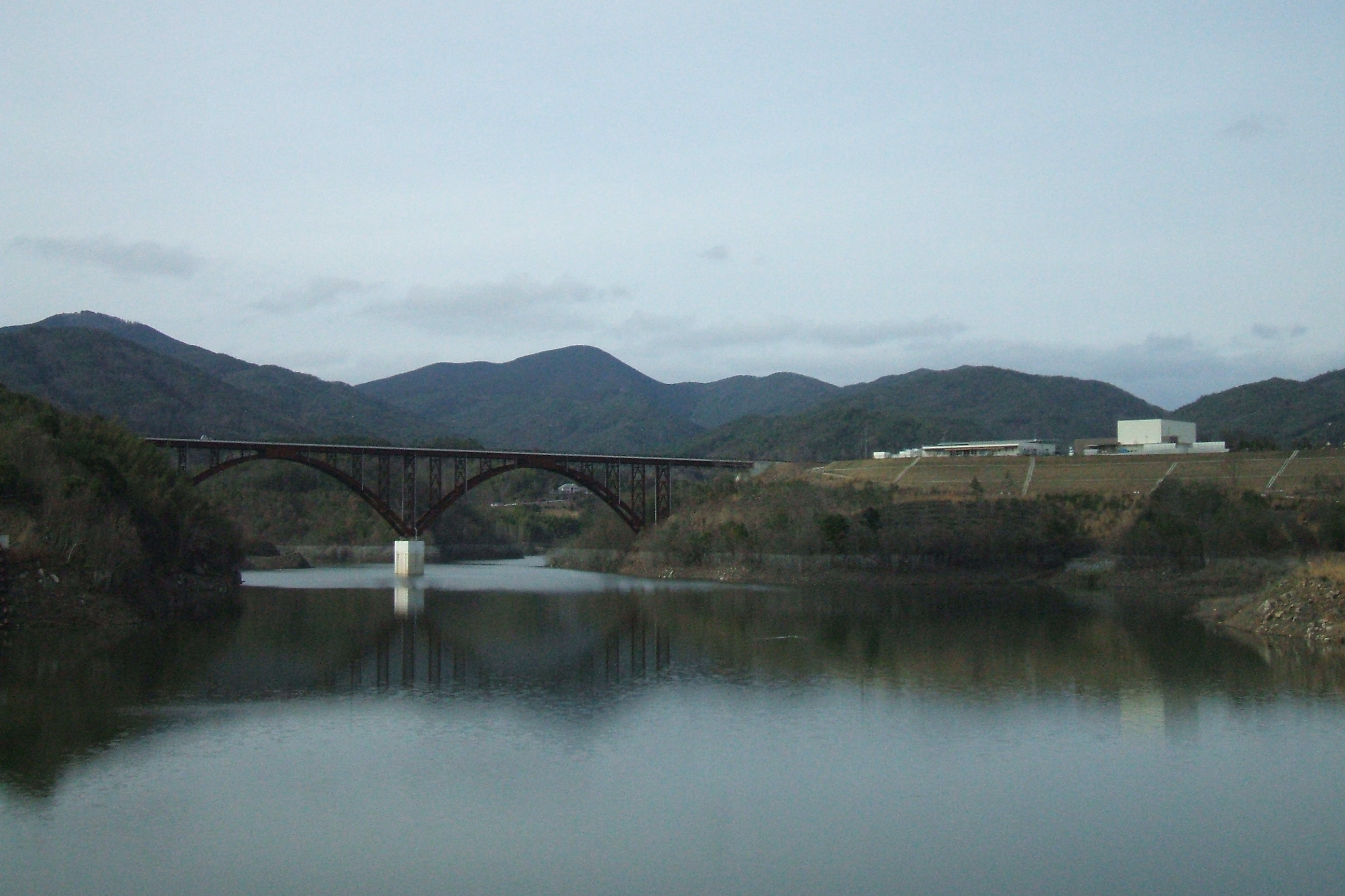 Shakunage Lake in Higashihiroshima city.